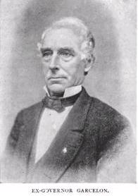 30th Governor of Maine